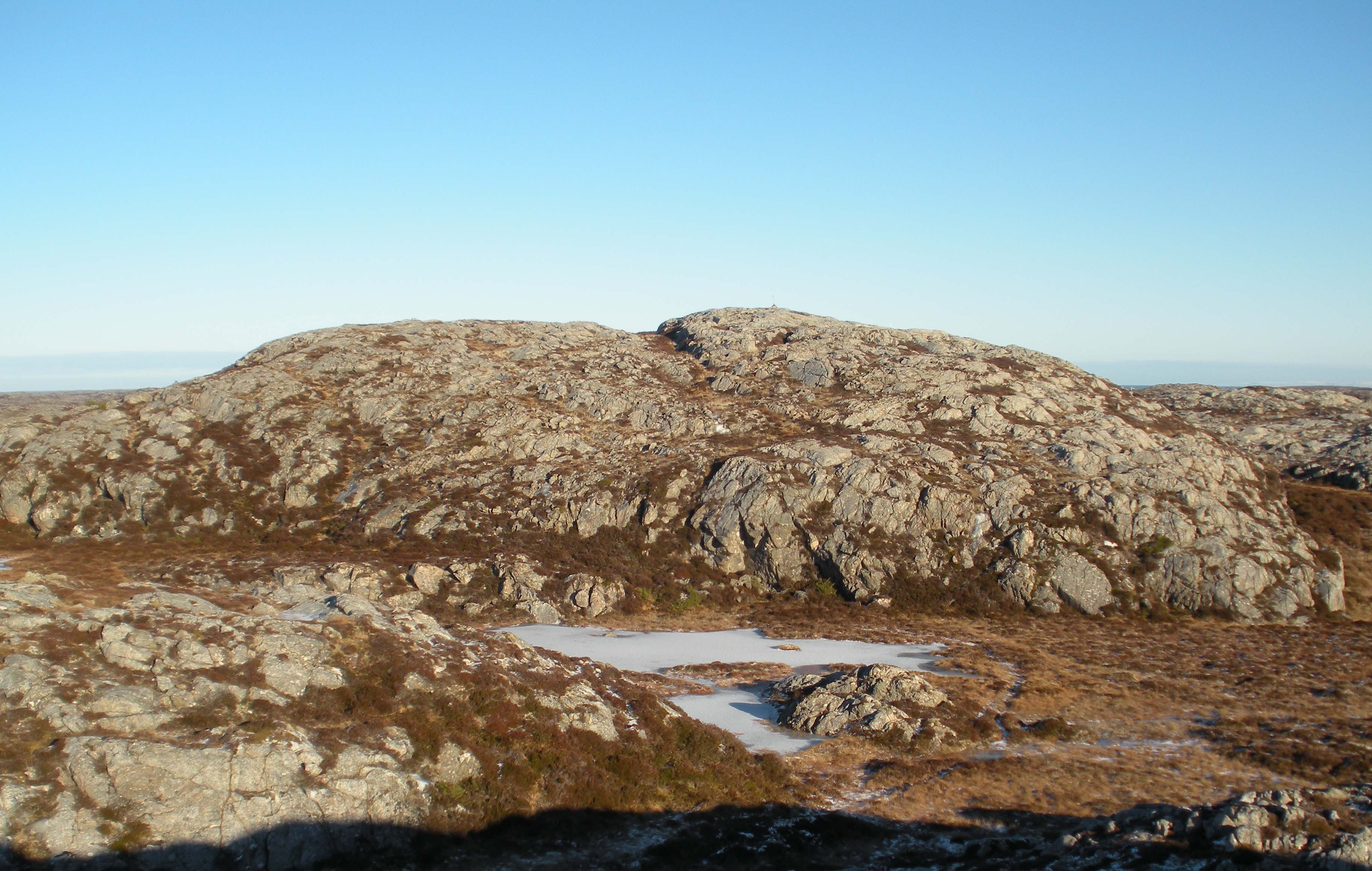 Besselvassheia (76 metres) Frøya, Sør-Trøndelag, Norway